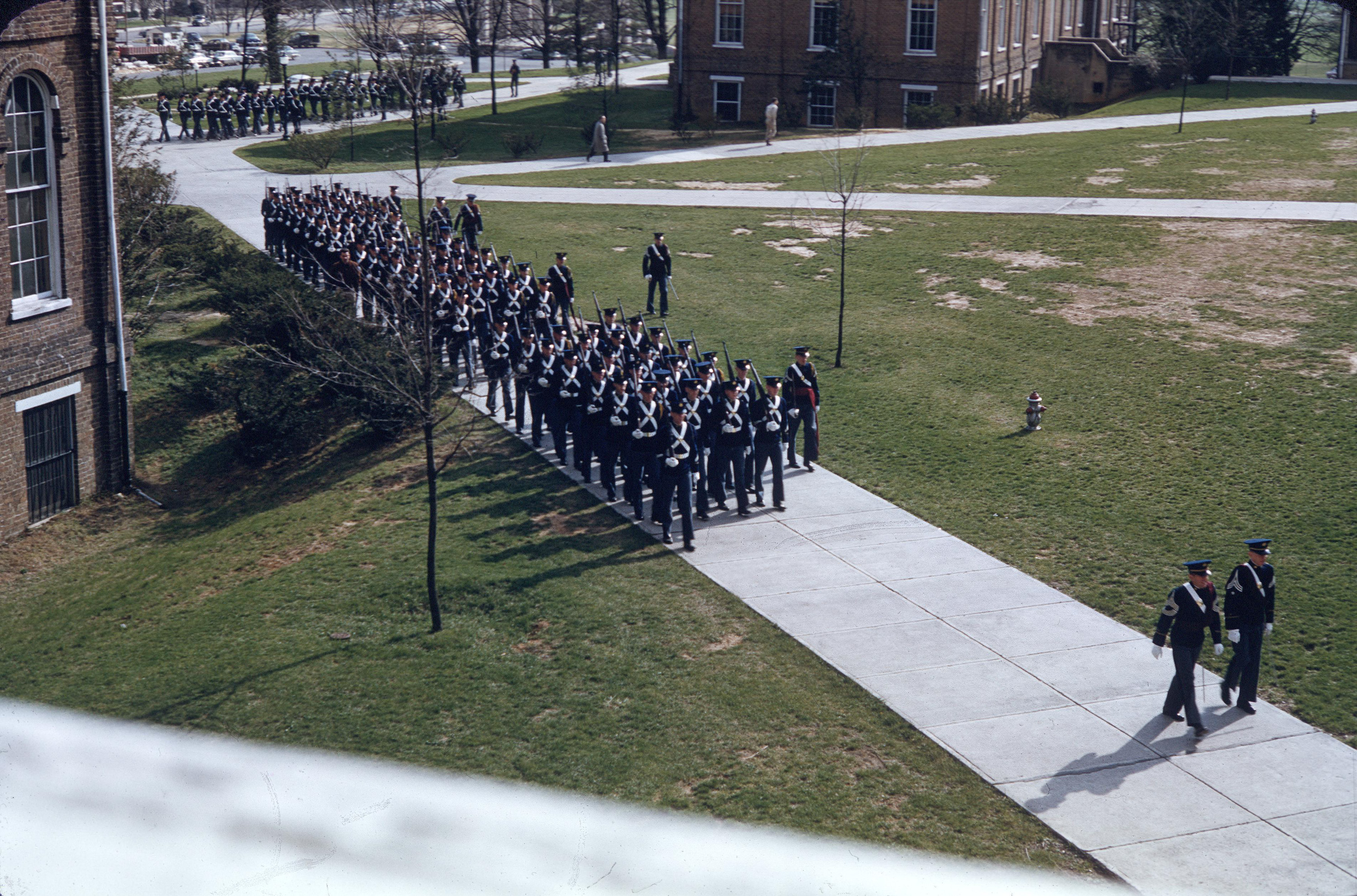 Corps of Cadets drill on campus, Virginia Tech, very likely taken 1952.